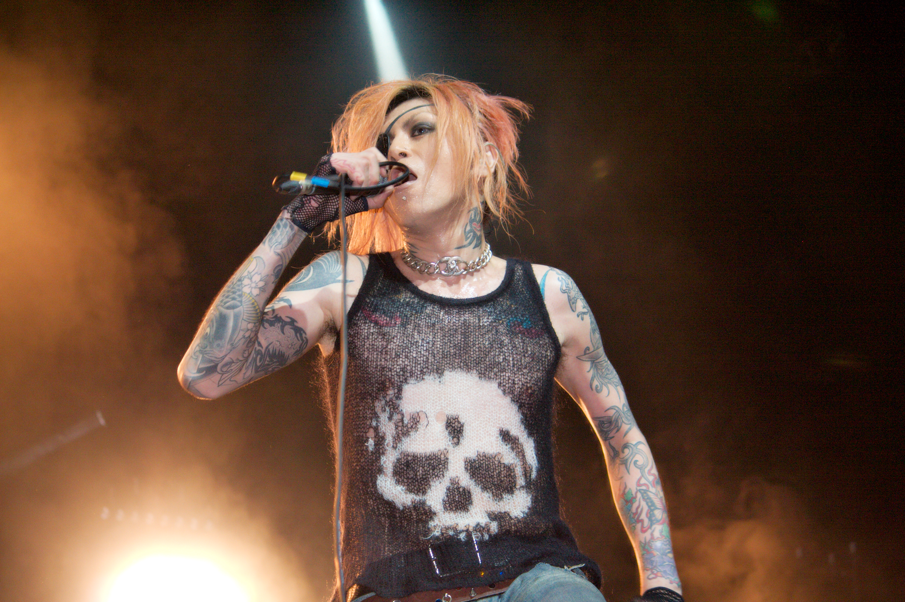 machine live at Japan Expo 2008 (Paris, France).